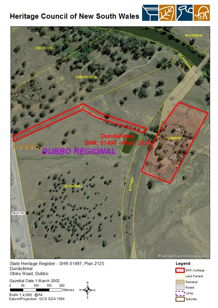 Dundullimal Homestead: SHR Plan 2125